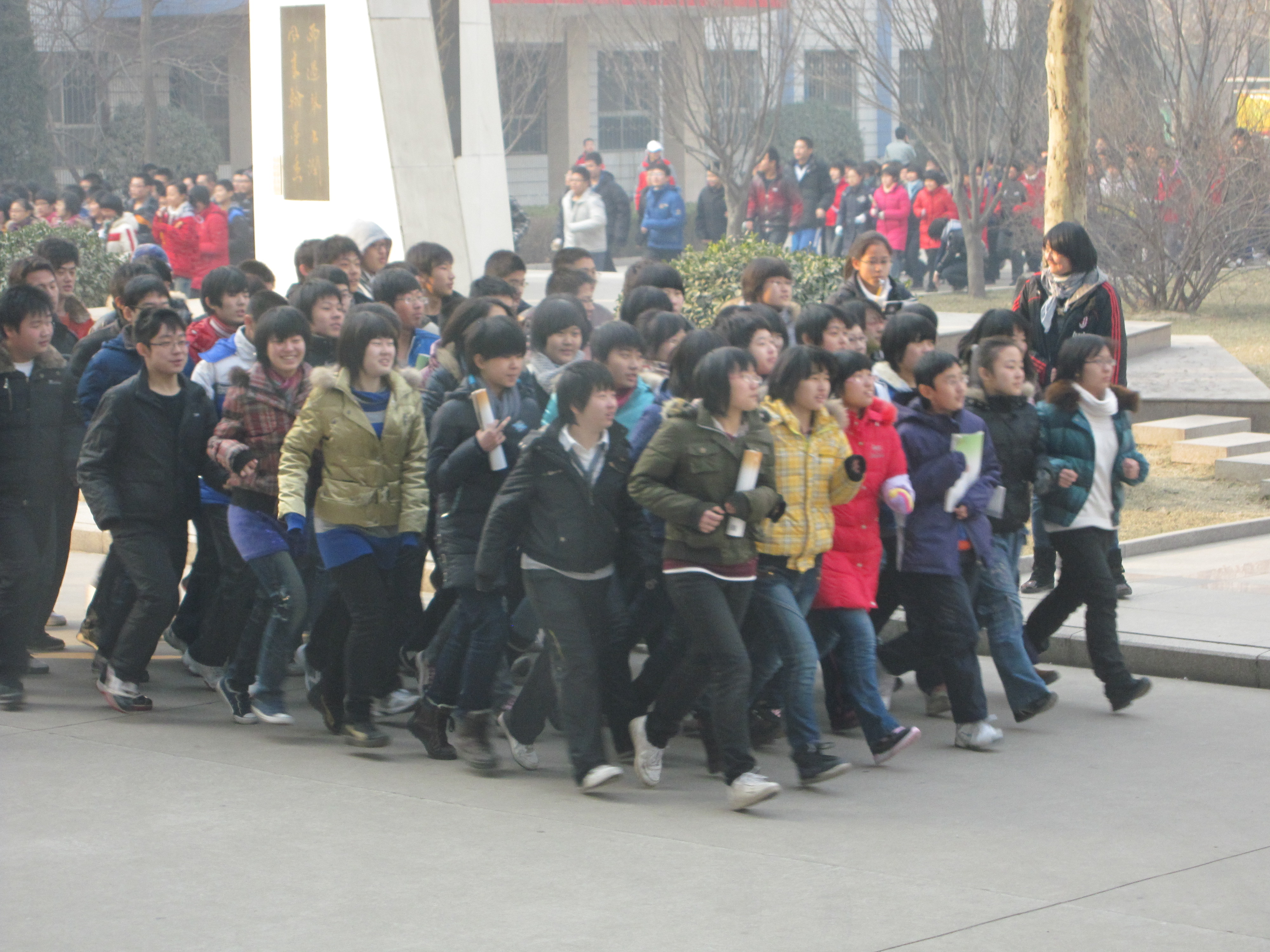 Students' running exercise in Hengshui High School, Hebei.